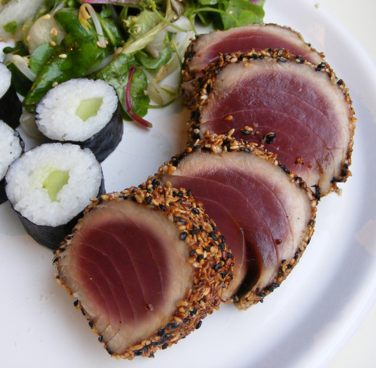 Gordon Ramsay's Sesame Crusted Tuna